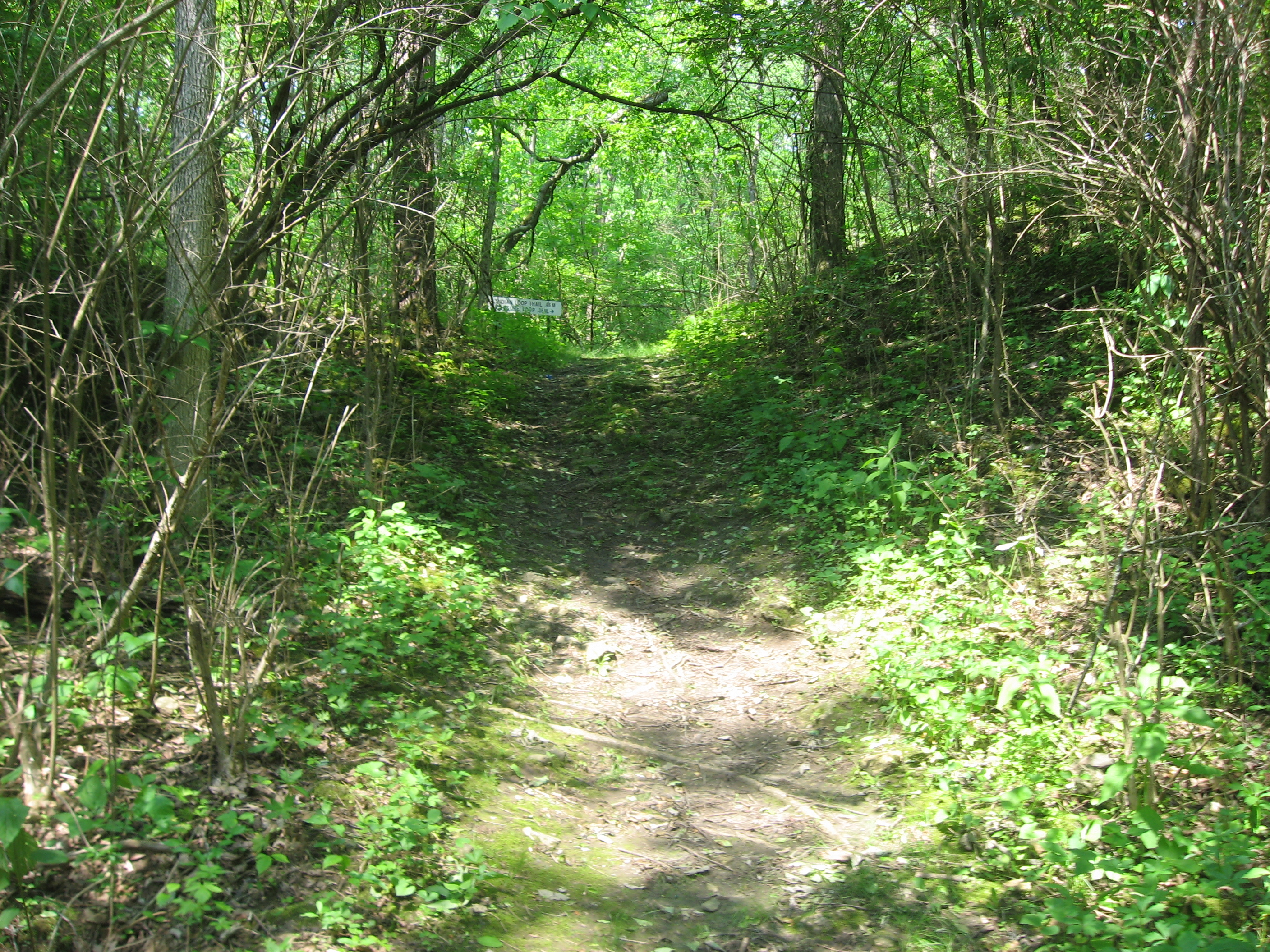 Entrance to the Pollock Works, located in Indian Mound Reserve off U.S. Route 42 west of Cedarville in Cedarville Township, Greene County, Ohio, United States. Built by Hopewellian peoples, the works are listed on the National Register of Historic Places.